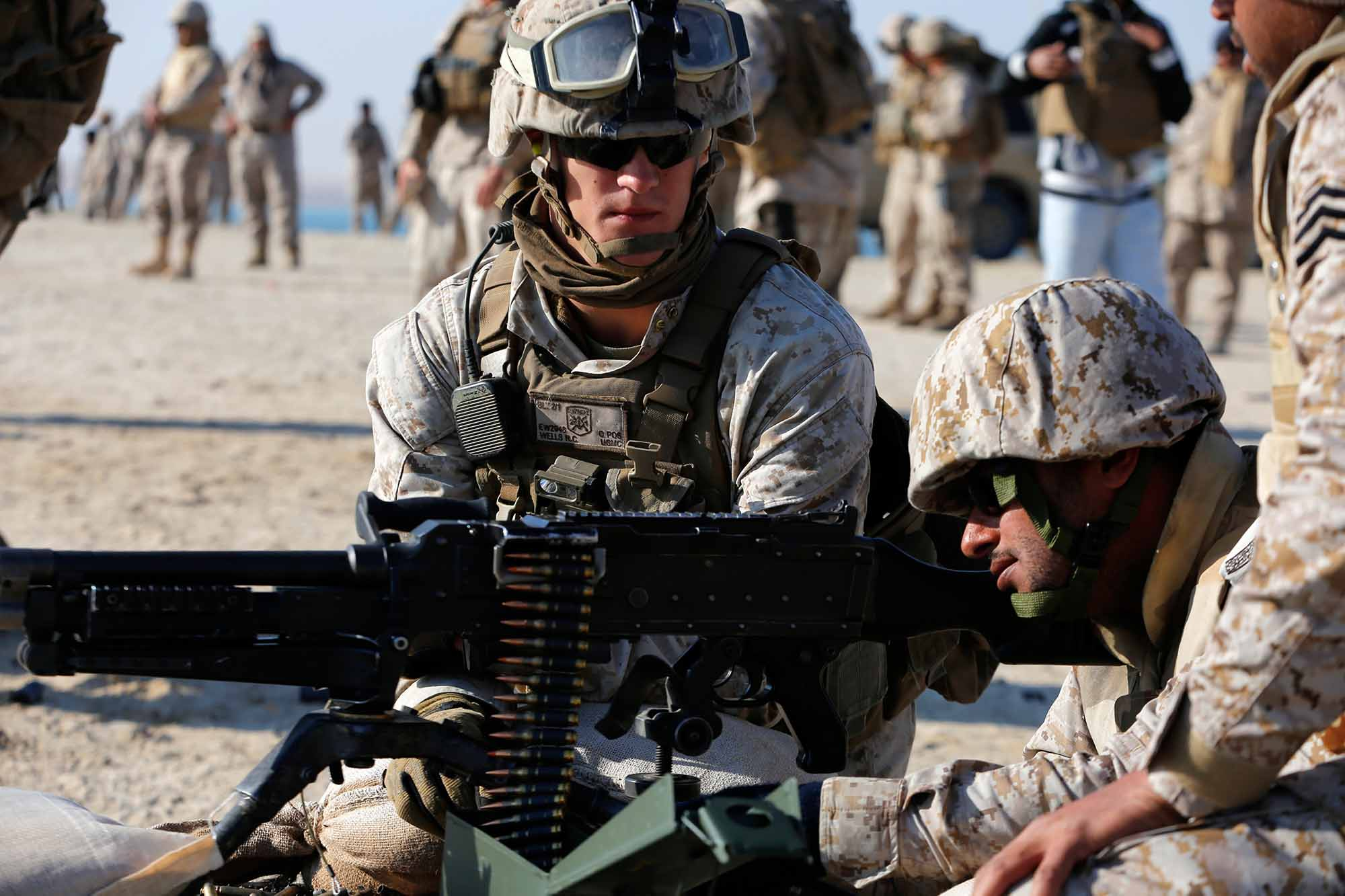 U.S. 5TH FLEET AREA OF RESPONSIBILITY (Dec. 13, 2014) U.S. Marine Corps Lance Cpl. Riley C. Wells, center, a machine gunner with Echo Company, Battalion Landing Team 2nd Battalion, 1st Marines, 11th Marine Expeditionary Unit (MEU), and native of Grundy Center, Iowa, watches over Saudi Marines as the range safety officer during bilateral machinegun live-fire training as part of exercise Red Reef 15 in the U.S. 5th Fleet area of responsibility, Dec. 13, 2014. Red Reef, is part of a routine theater security cooperation engagement plan between the U.S. Navy, U.S. Marine Corps and Royal Saudi Naval Forces that serves as an excellent opportunity to strengthen tactical proficiency in critical mission areas and support long-term regional security. (U.S. Marine Corps photos by Gunnery Sgt. Rome M. Lazarus/Released)